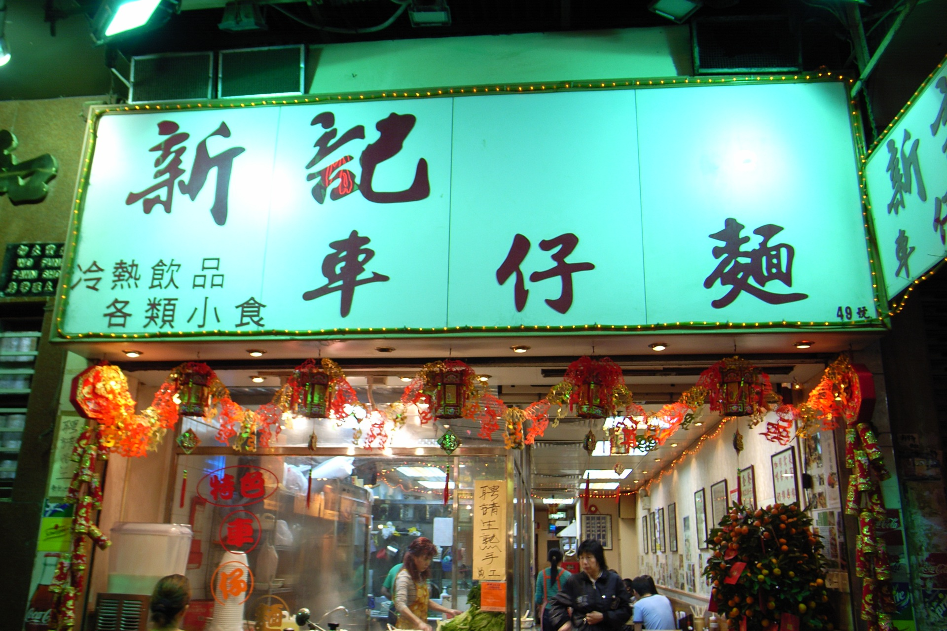 Hong Kong cart noodle store